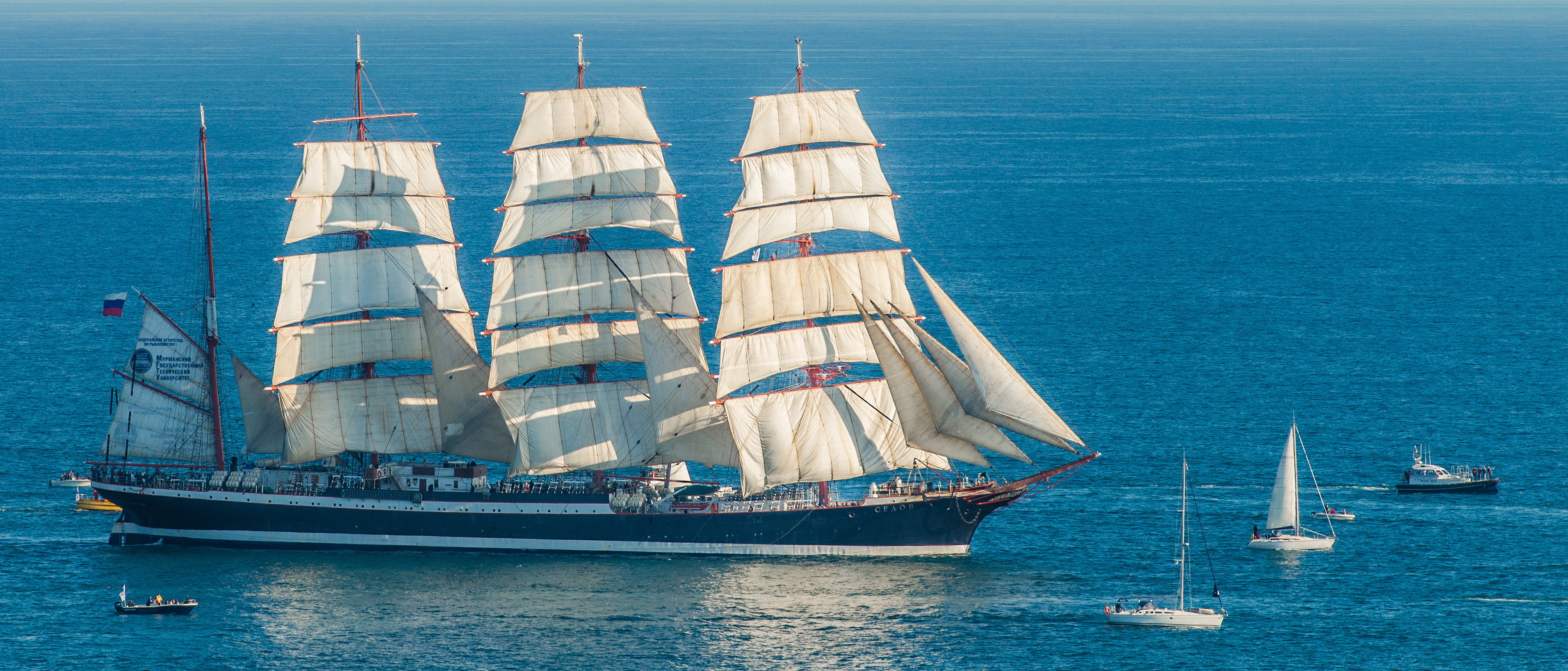 The Sedov (Russian four-masted barque, 1921) near the harbour of Sète, Hérault, France.